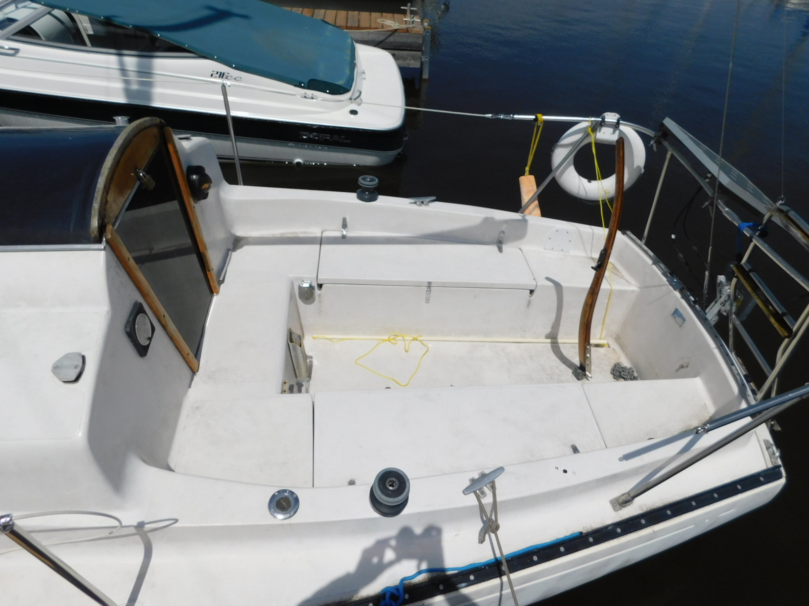 The cockpit of a Northern 25 sailboat named Whimsy.